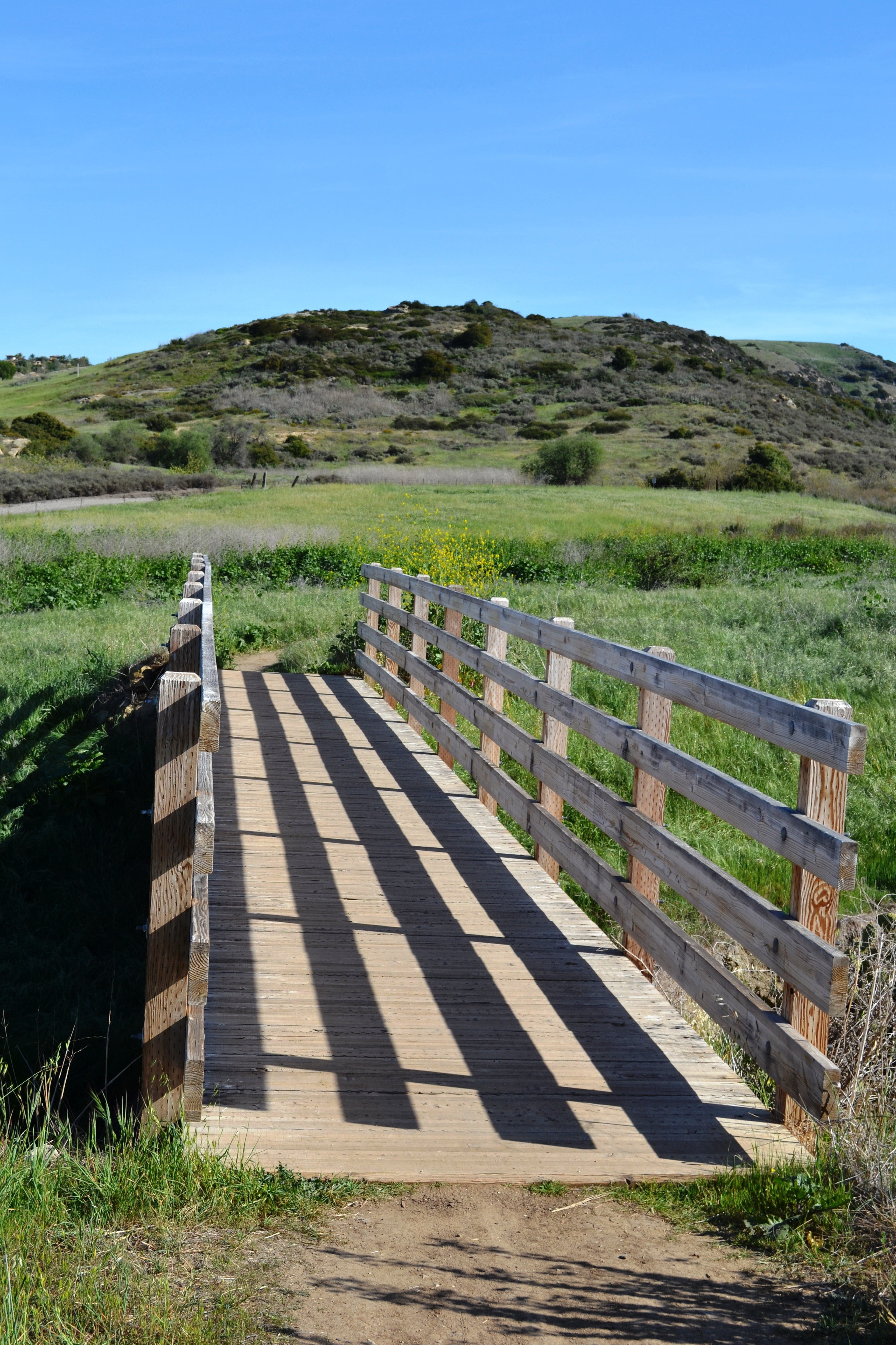 Bridge over Bommer Meadow Trail in Bommer Canyon open space preserve, in Irvine, California.